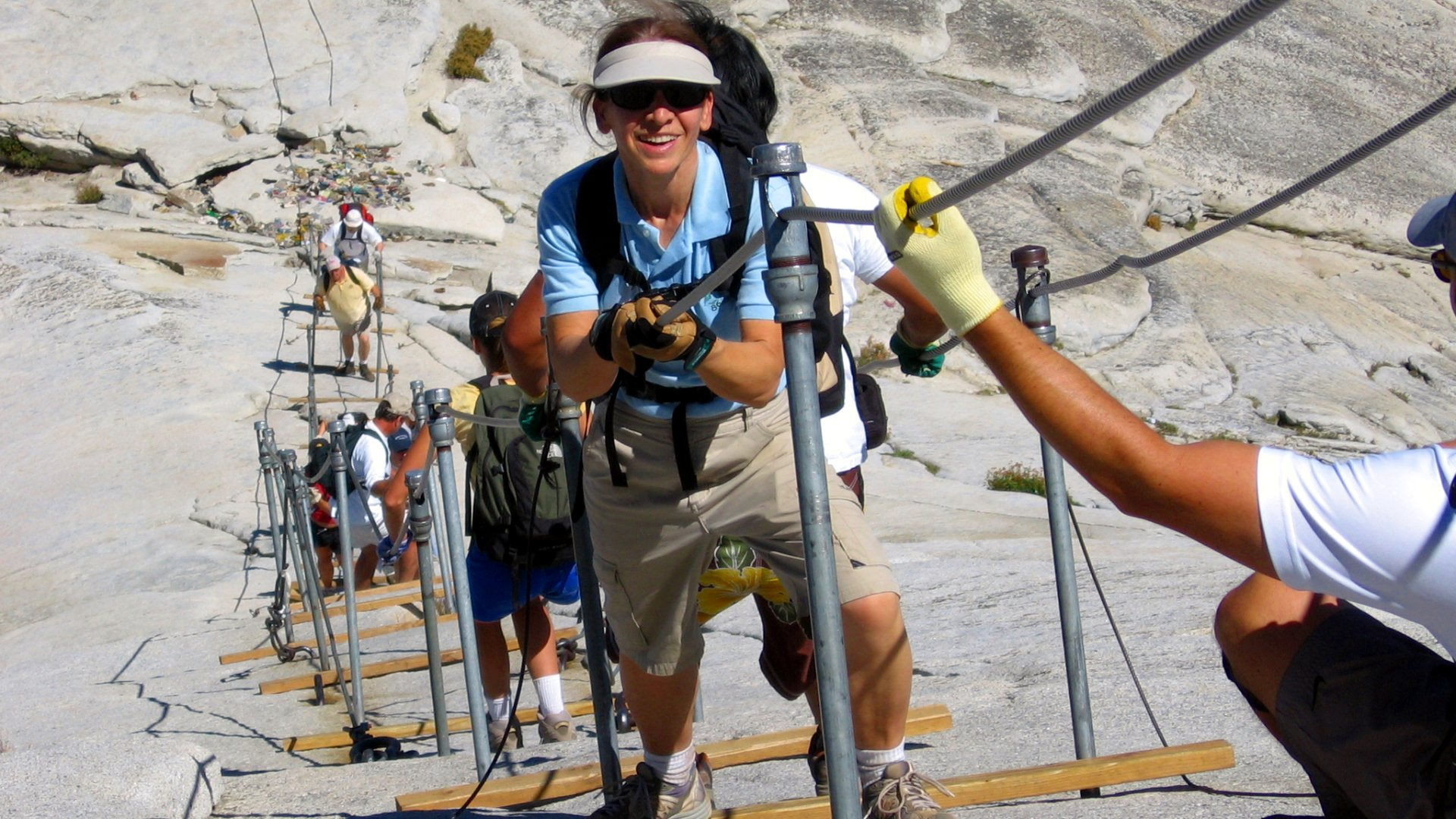 Hikers walk up the east face of Half Dome, aided by a pair of cables. Olga Joplin in foreground.